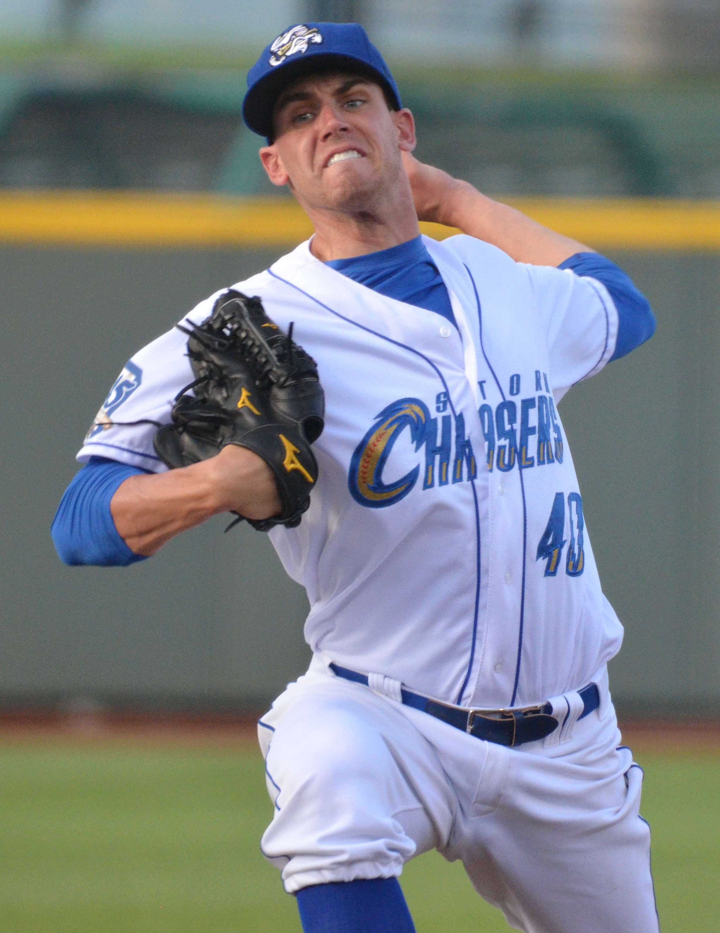 Donnie Joseph delivers a pitch for the Omaha Storm Chasers during a 2013 game at Werner Park in Omaha.